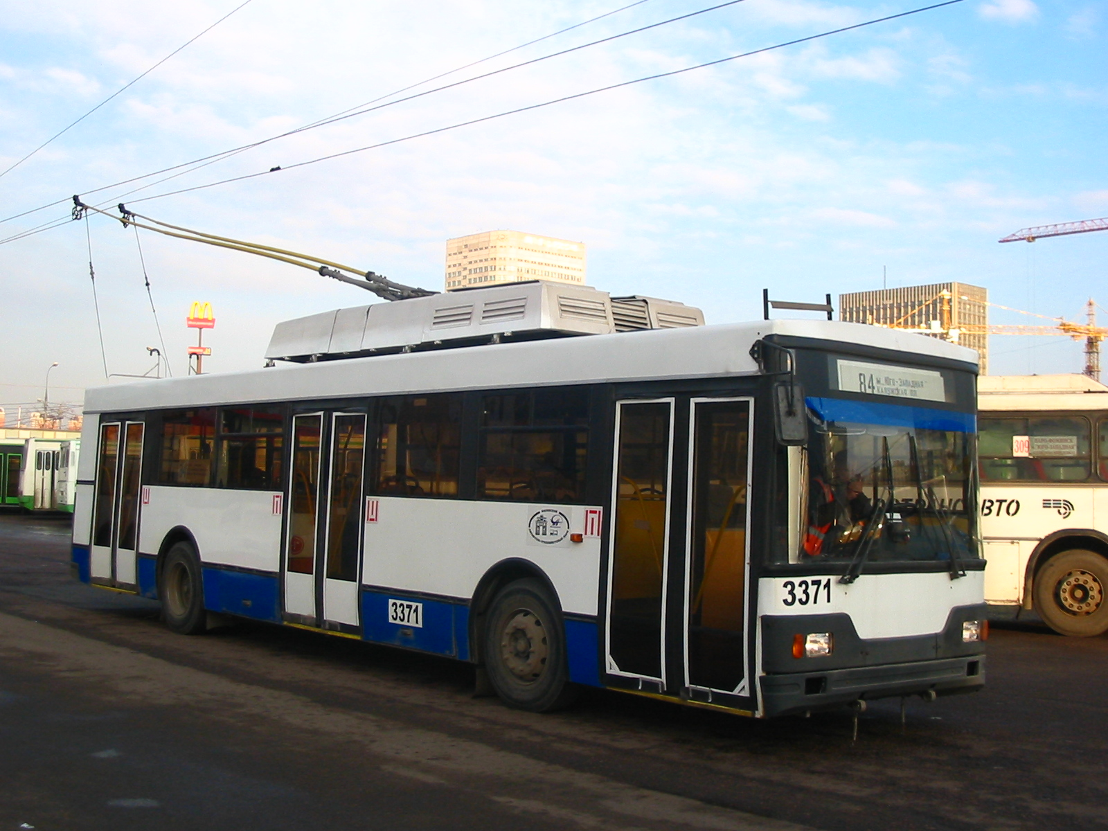 Moscow, trolleybus TrolZa-527500 #3371 in "Metro Ygo-Zapadnaya" terminus.